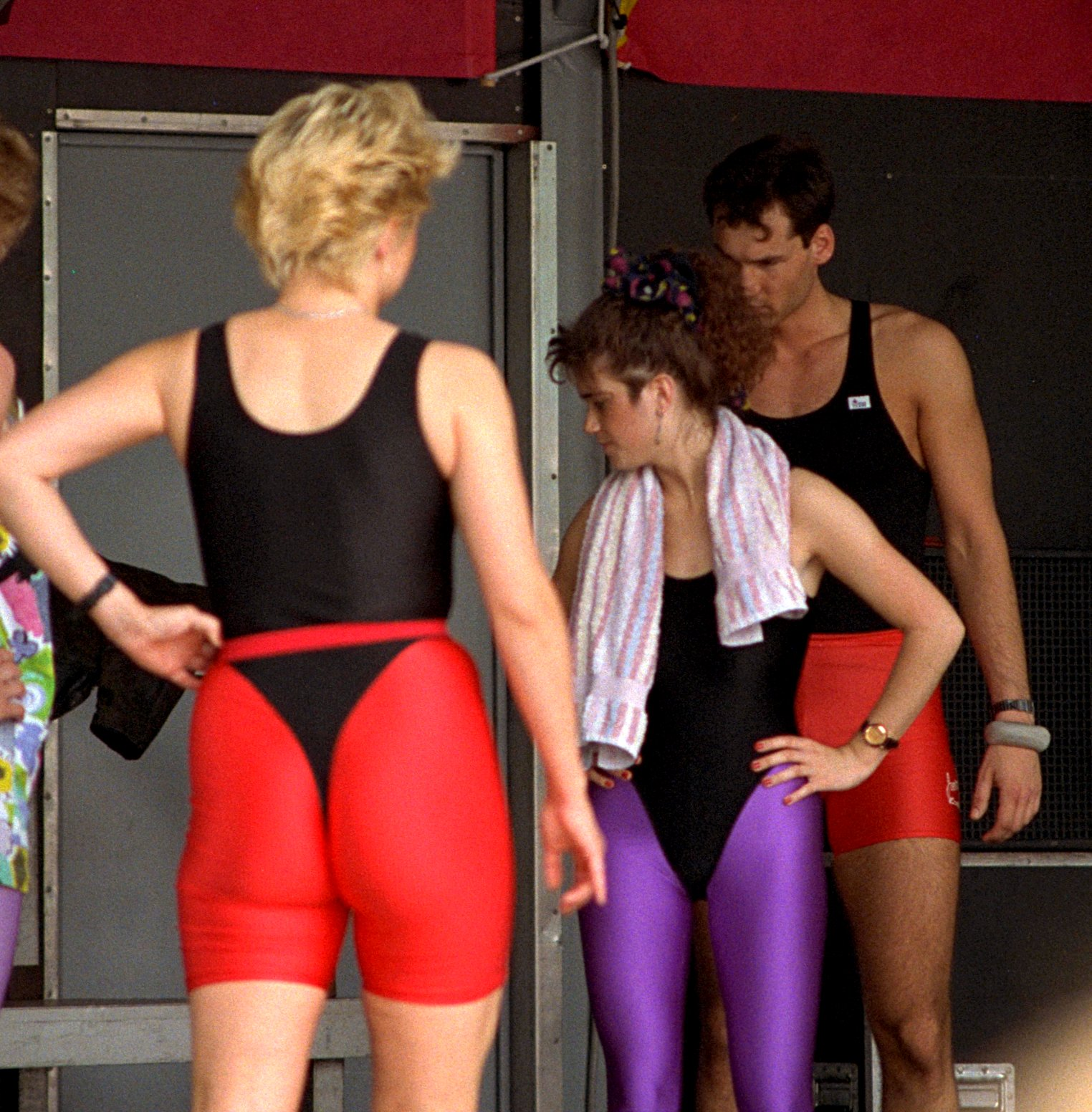 A public demonstration of aerobic exercises